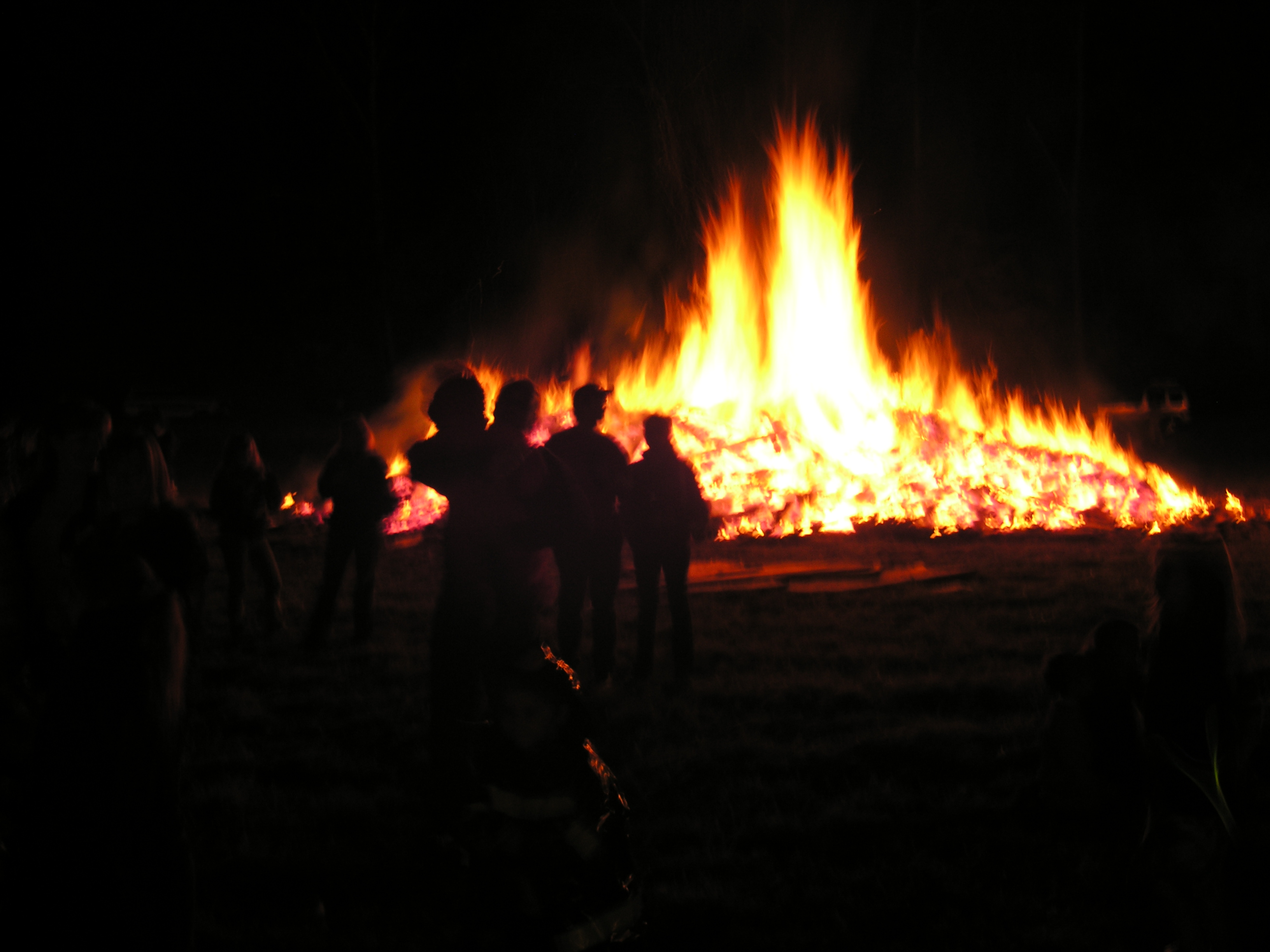 The annual Halloween bonfire at Smitty's in Delaware draws a large percentage of Knowlton's 3,000 residents.